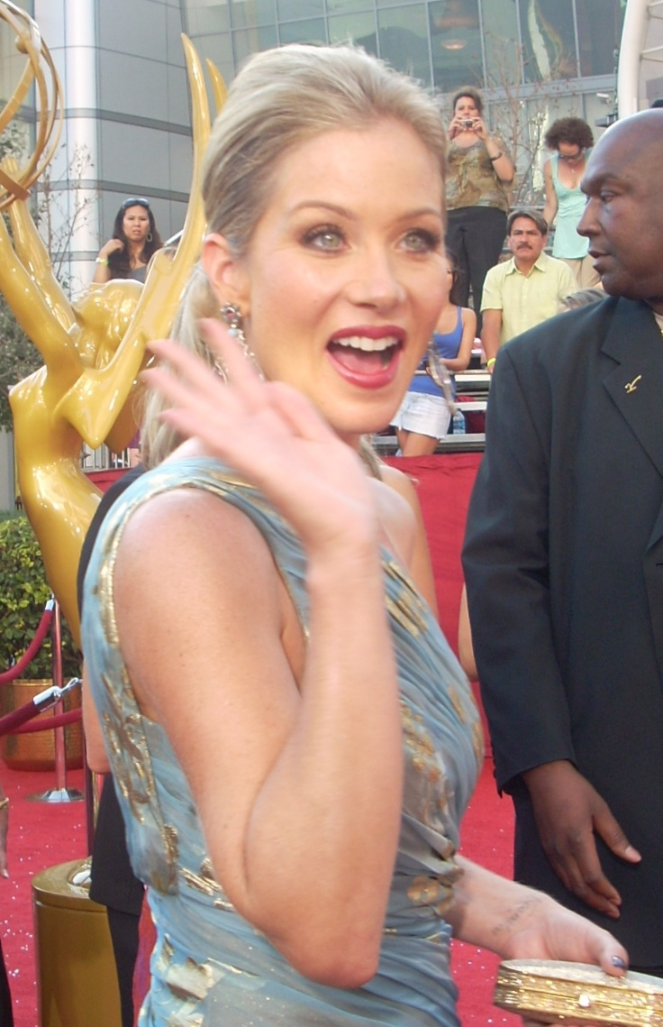 Christina Applegate at the 60th Annual Emmy Awards, Nokia Theater, Sept. 21, 2008.